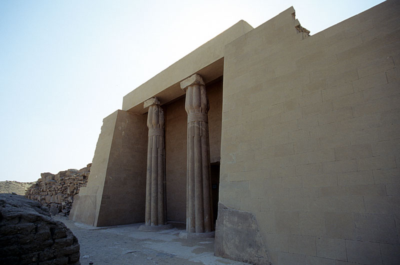 Entrance of the mastaba of Ptahshepses, Abu Sir, Egypt